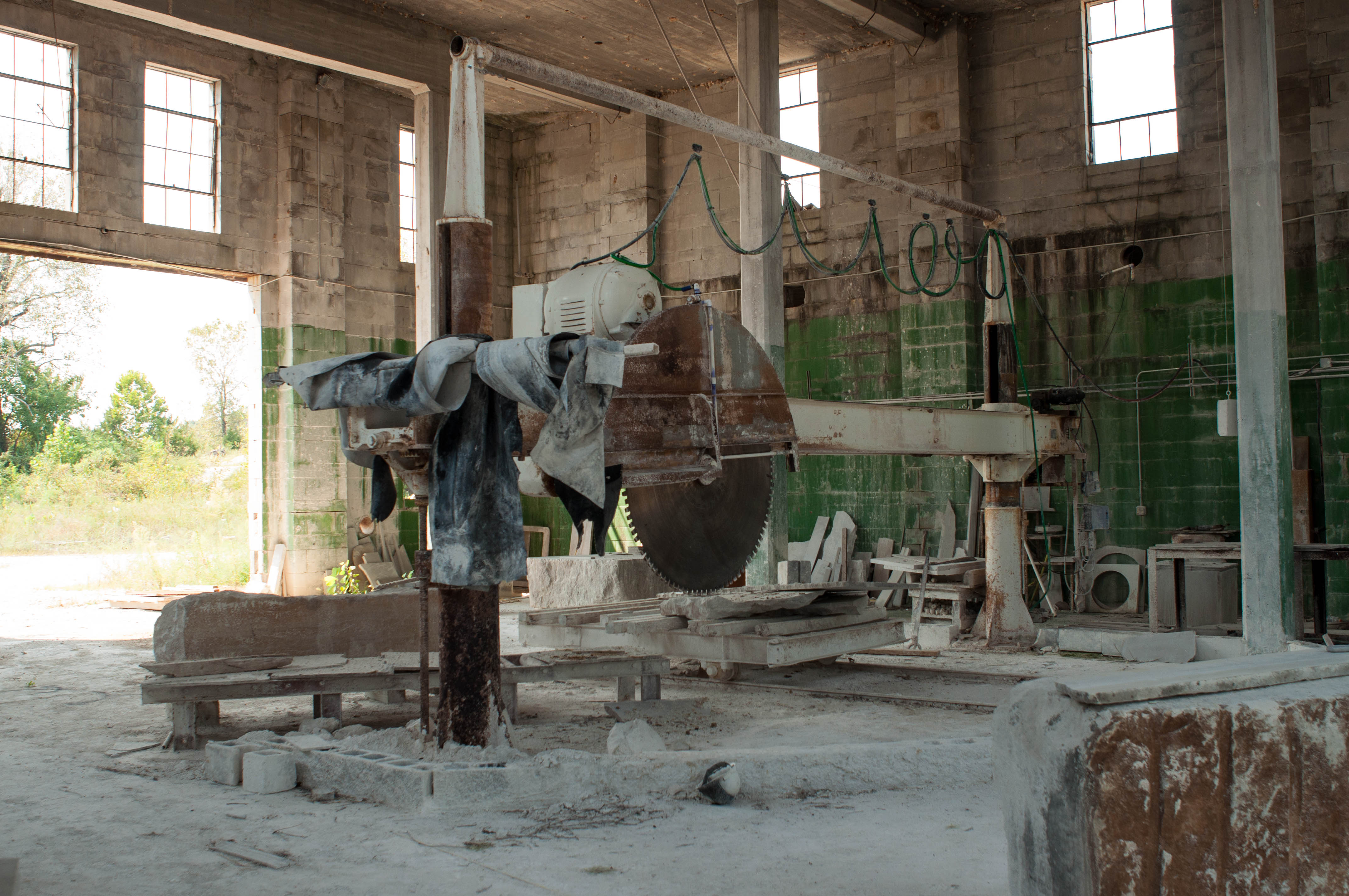 Limestone Saw